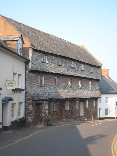 The Nunnery Built in the C14 on land granted to Cleeve Abbey but never inhabited by nuns - it was used as a guest house for Cleeve Abbey.